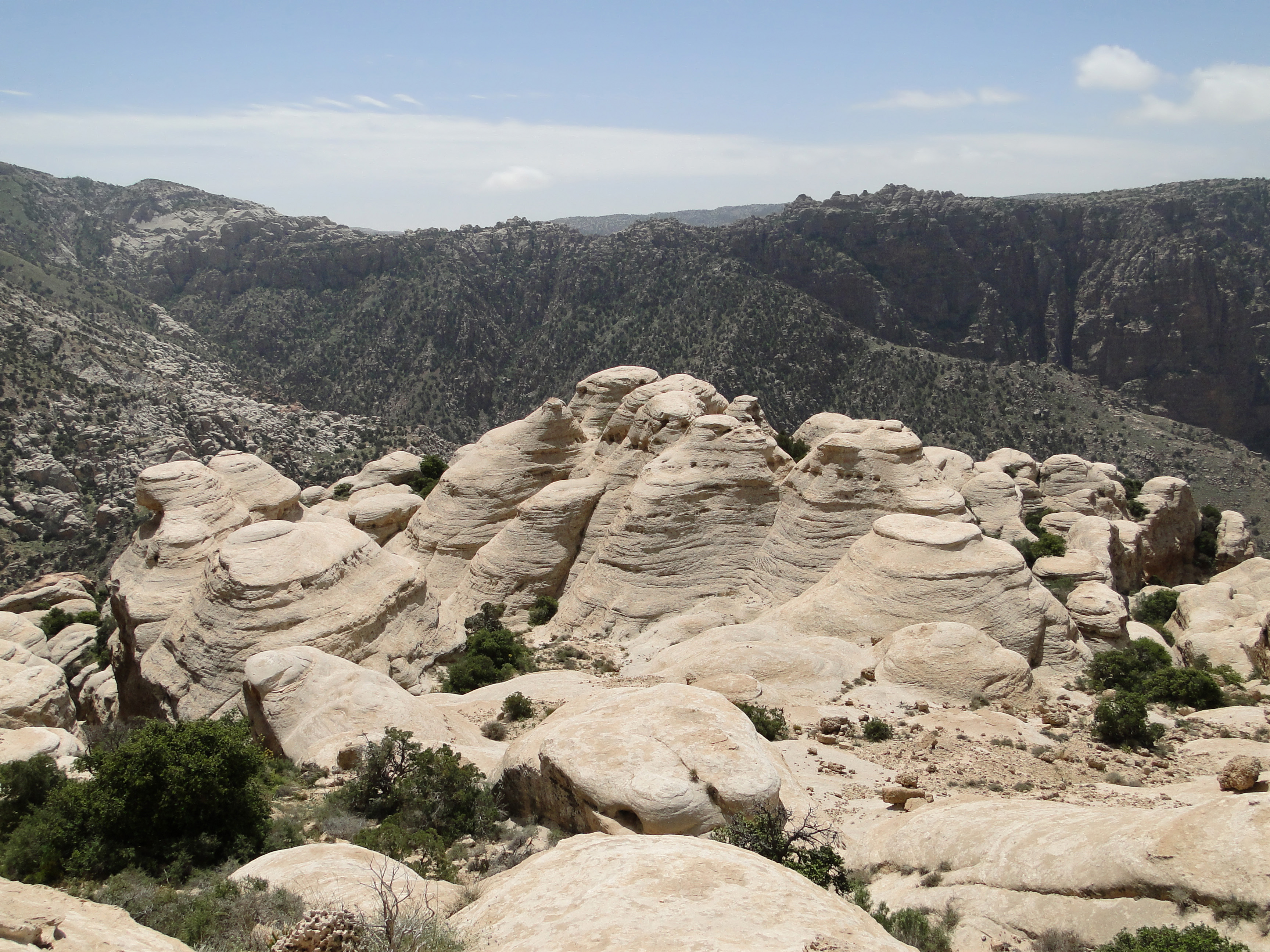 Landscape of Dana Biosphere Reserve, Jordan